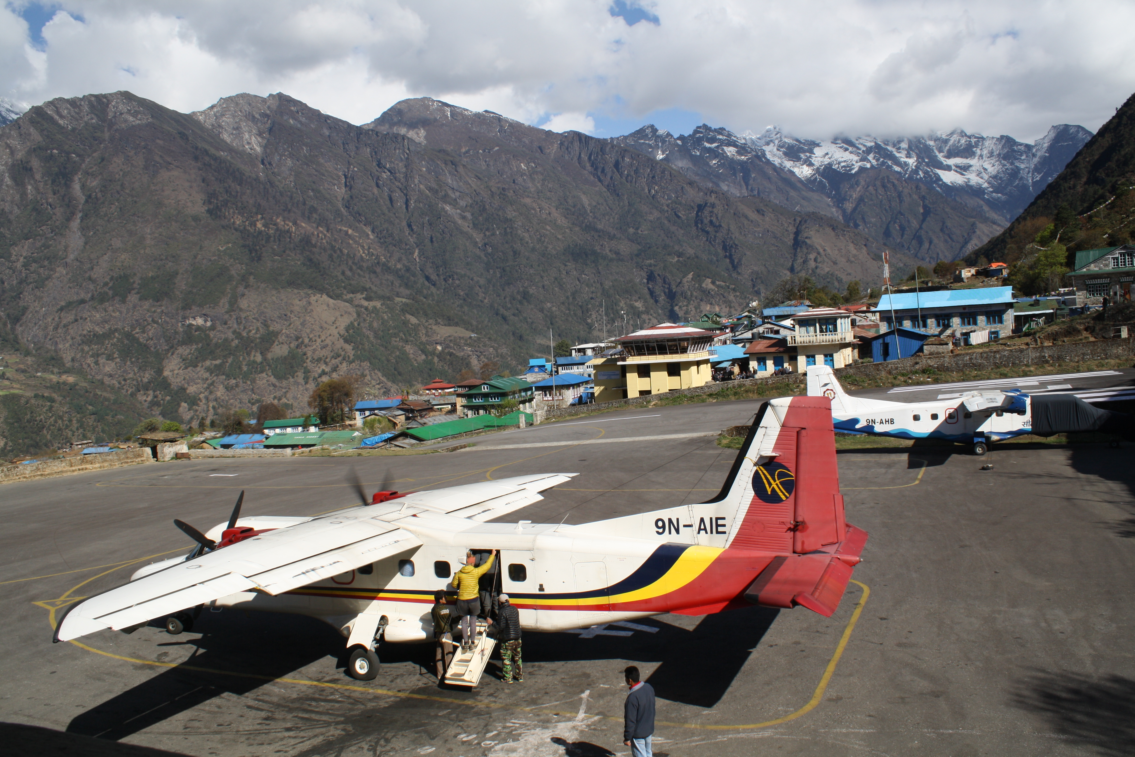 Lukla Airport at early morning.